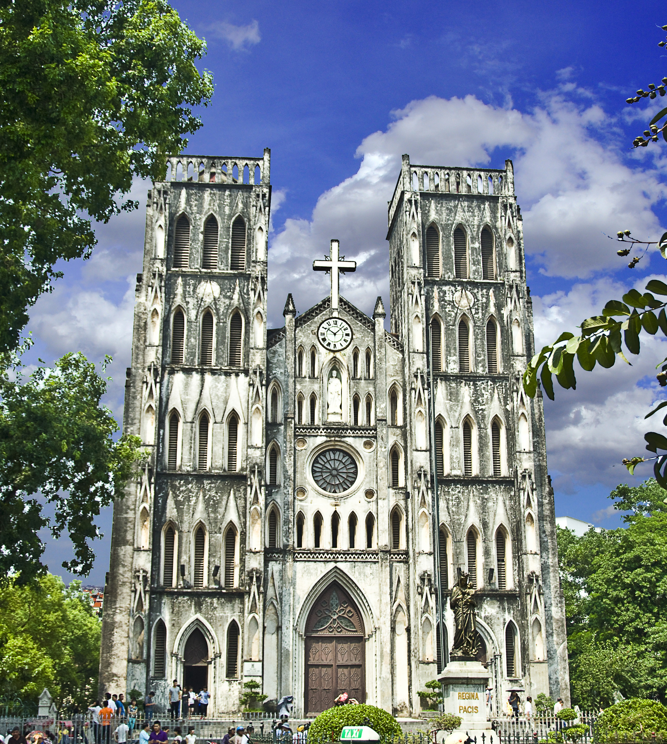 This Hanoi Church is designed similar to the architecture of Notre Dame Cathedral in Paris. The special thing about this Church is that the space around the Cathedral is an ideal meeting place for local residents in Hanoi, especially youngsters, to get away from the hustle & bustle of the city.